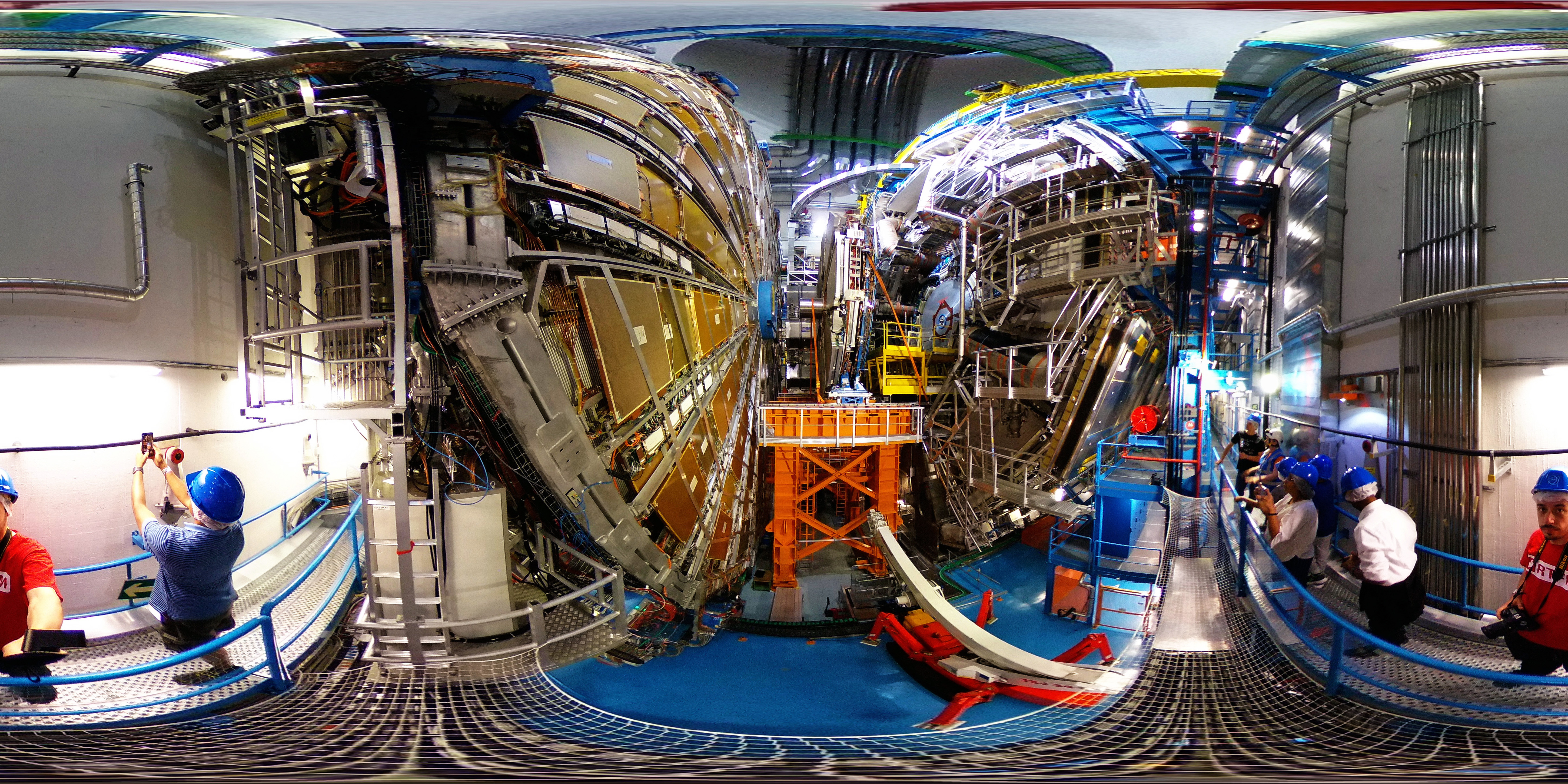 ATLAS (A Toroidal LHC ApparatuS) particle detector experiments at the LHC particle accelerator at CERN in Switzerland.